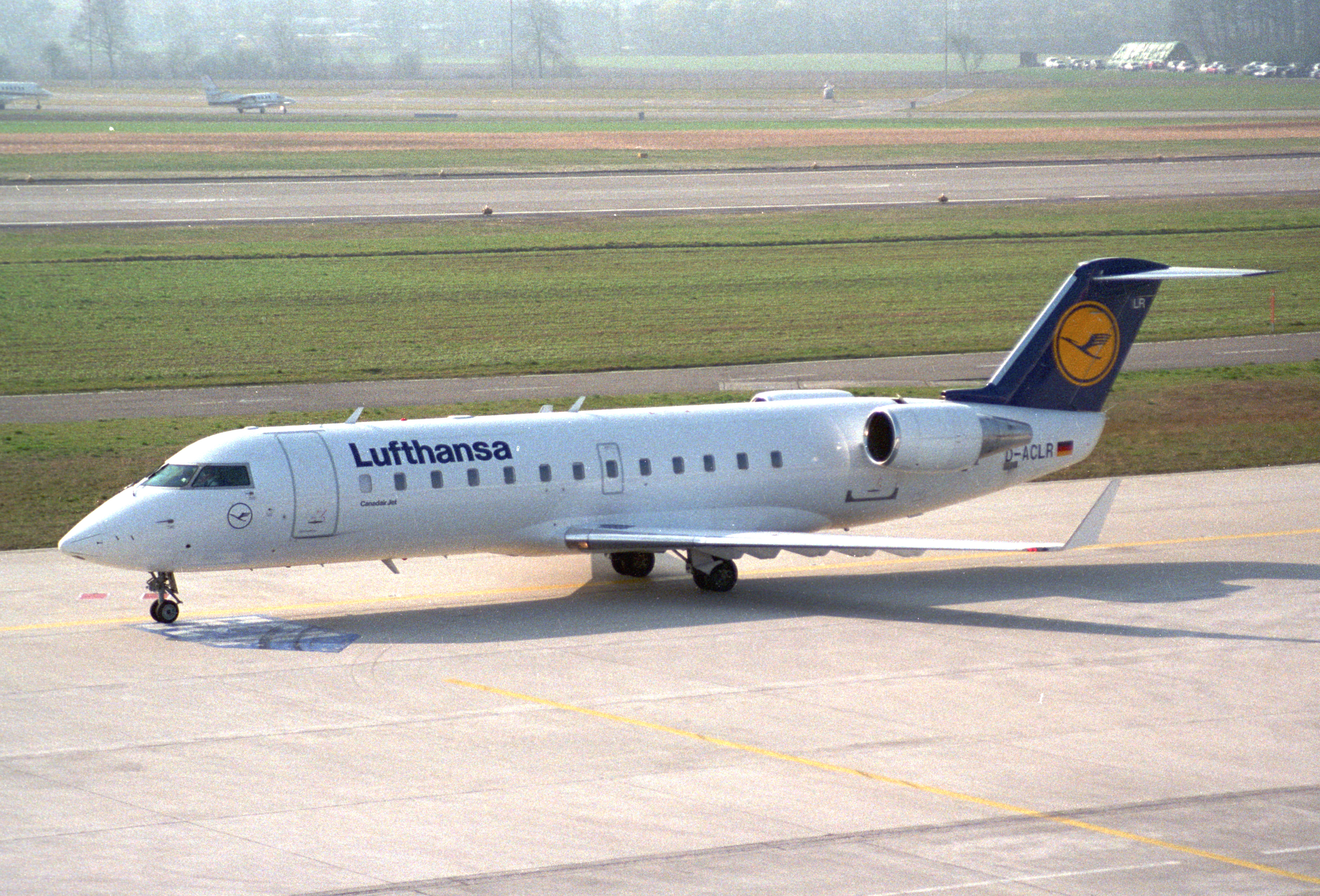 Lufthansa Cityline Canadair CRJ100LR; D-ACLR@ZRH;09.03.1997